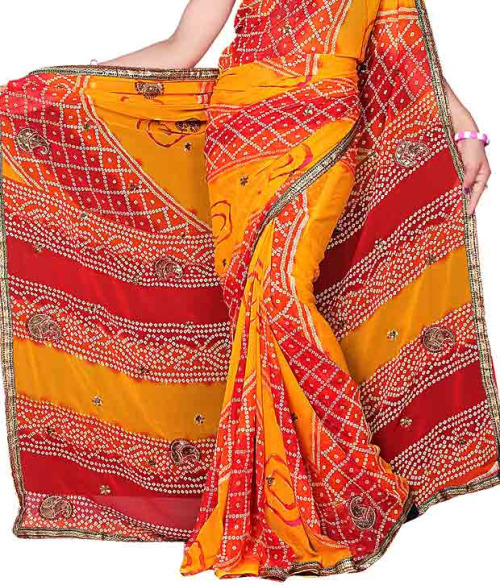 Bandhej Saree